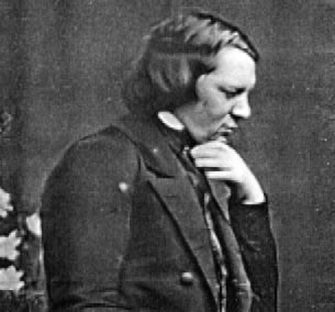 Robert Schumann, Daguerreotypie